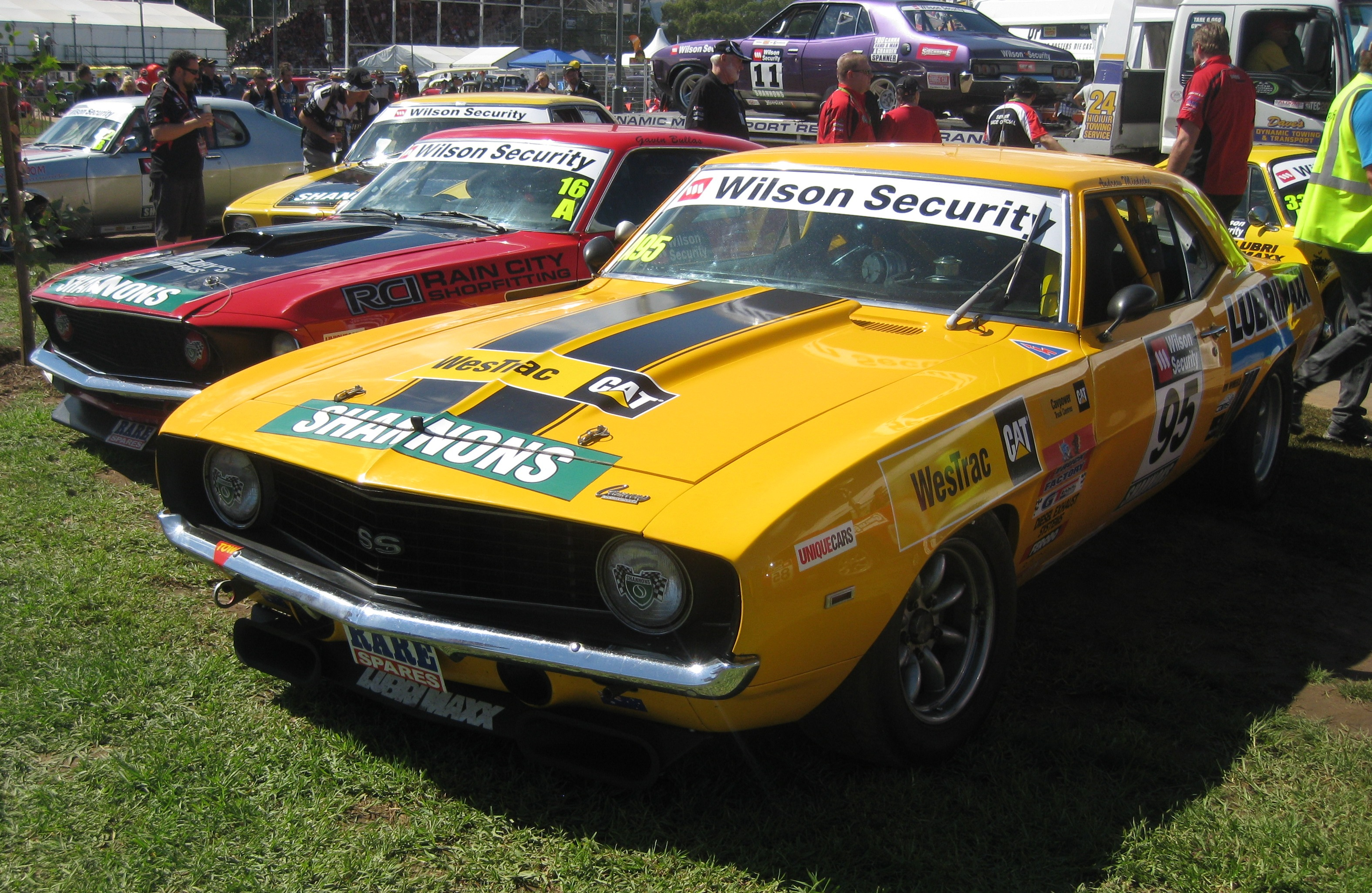 The 1969 Chevrolet Camaro SS of Andrew Miedecke at the Adelaide Parklands Circuit for the opening round of the 2012 Touring Car Masters.